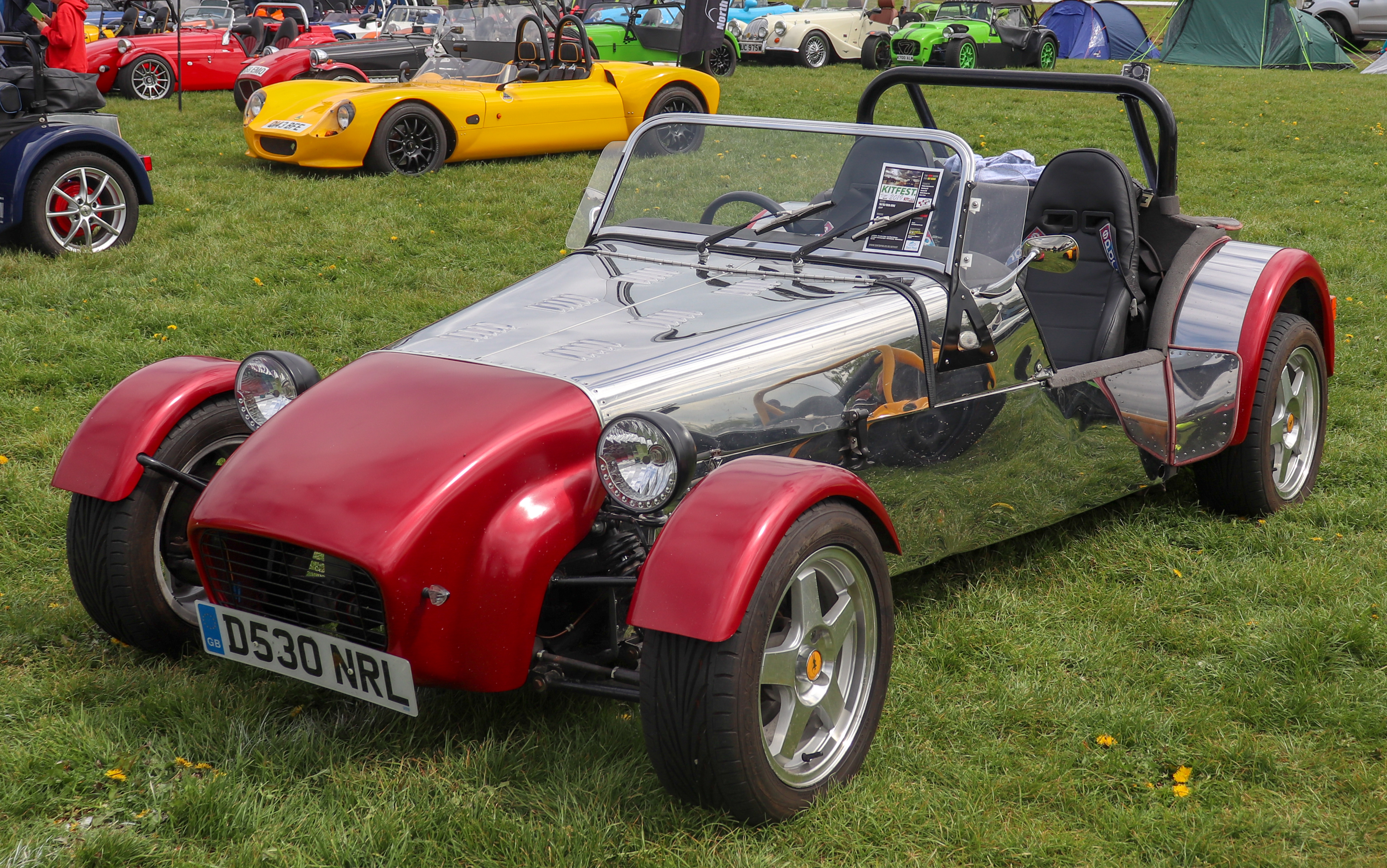 1987 Robin Hood 2.0 Front Taken at the Stoneleigh National Kit Car Motor Show 2019